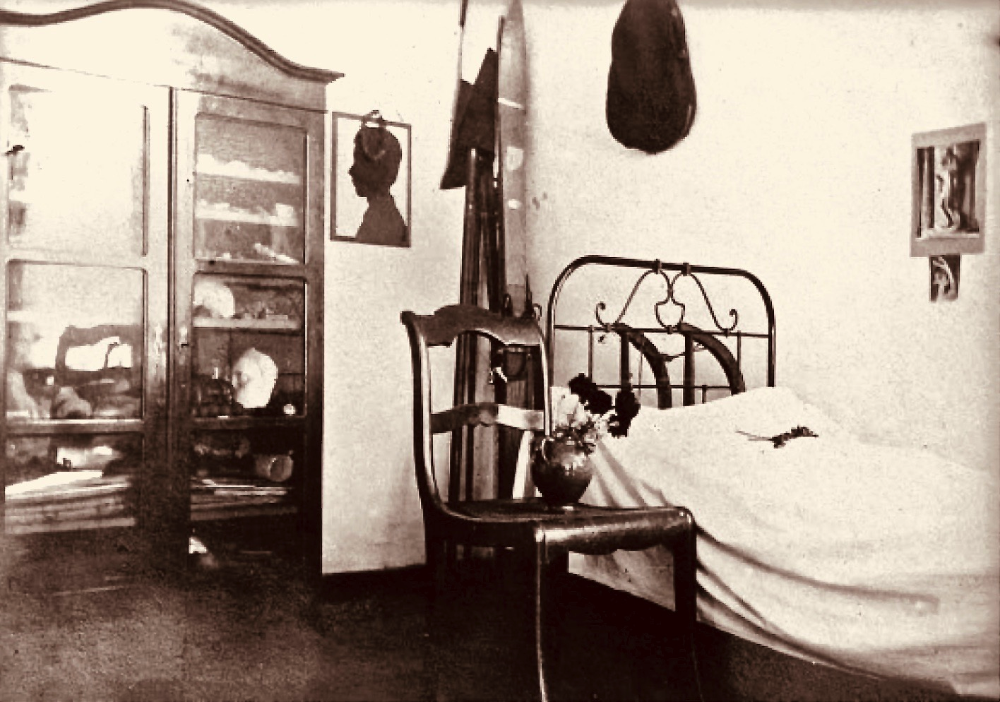 Private room of Peter Kollwitz (1896–1914), the youngest son of Karl Kollwitz (1863–1940, née Johannes Carl August Kollwitz) and Käthe Kollwitz (1867–1945), née Schmidt.